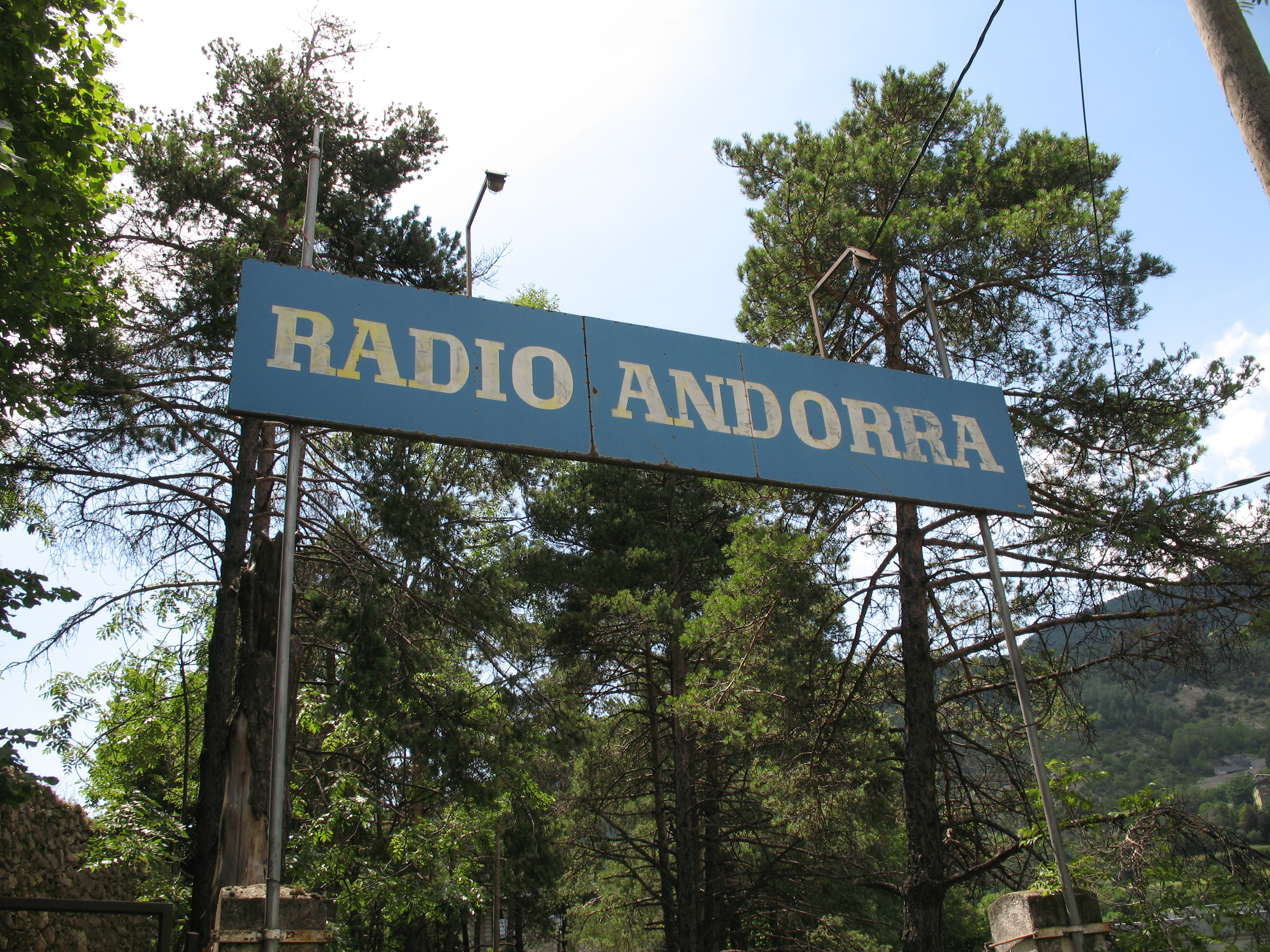 The Radio Andorre sign at Encamp.